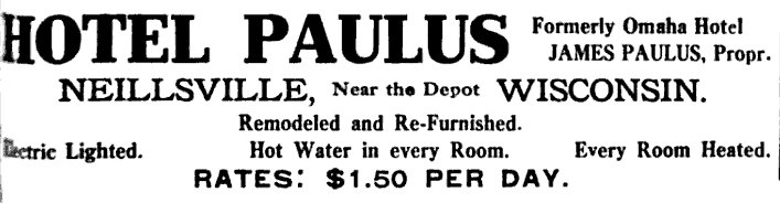 1909 advertisement for the Hotel Paulus in Neillsville, Wisconsin. The hotel is also known as the Omaha Hotel and is listed on the National Register of Historic Places.